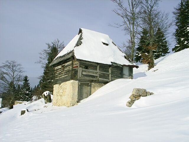 Vlašić mountains in Bosnia and Herzegovina